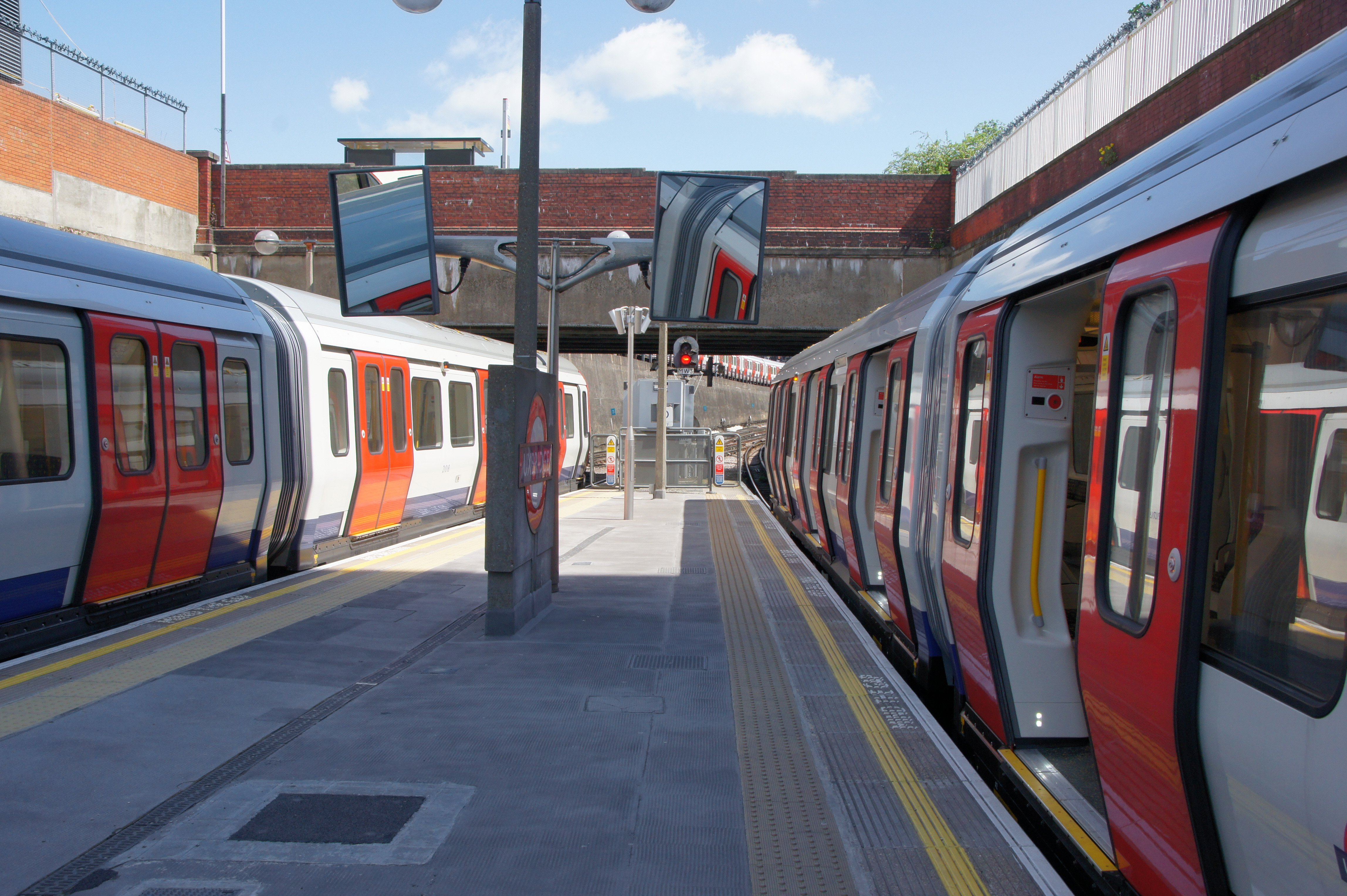 Uxbridge Underground Station, relocated in 1938, designed by Charles Holden. The stained glass windows are by Erwin Bossanyi, and are of Middlesex, Buckinghamshire and Uxbridge UDC. The wheels are by Joseph Armitage, and are depicting upturned wheels and springs. The fag/cigarette machine is a wonderful survivor. The forecourt used to be a trollybus turning circle. More at